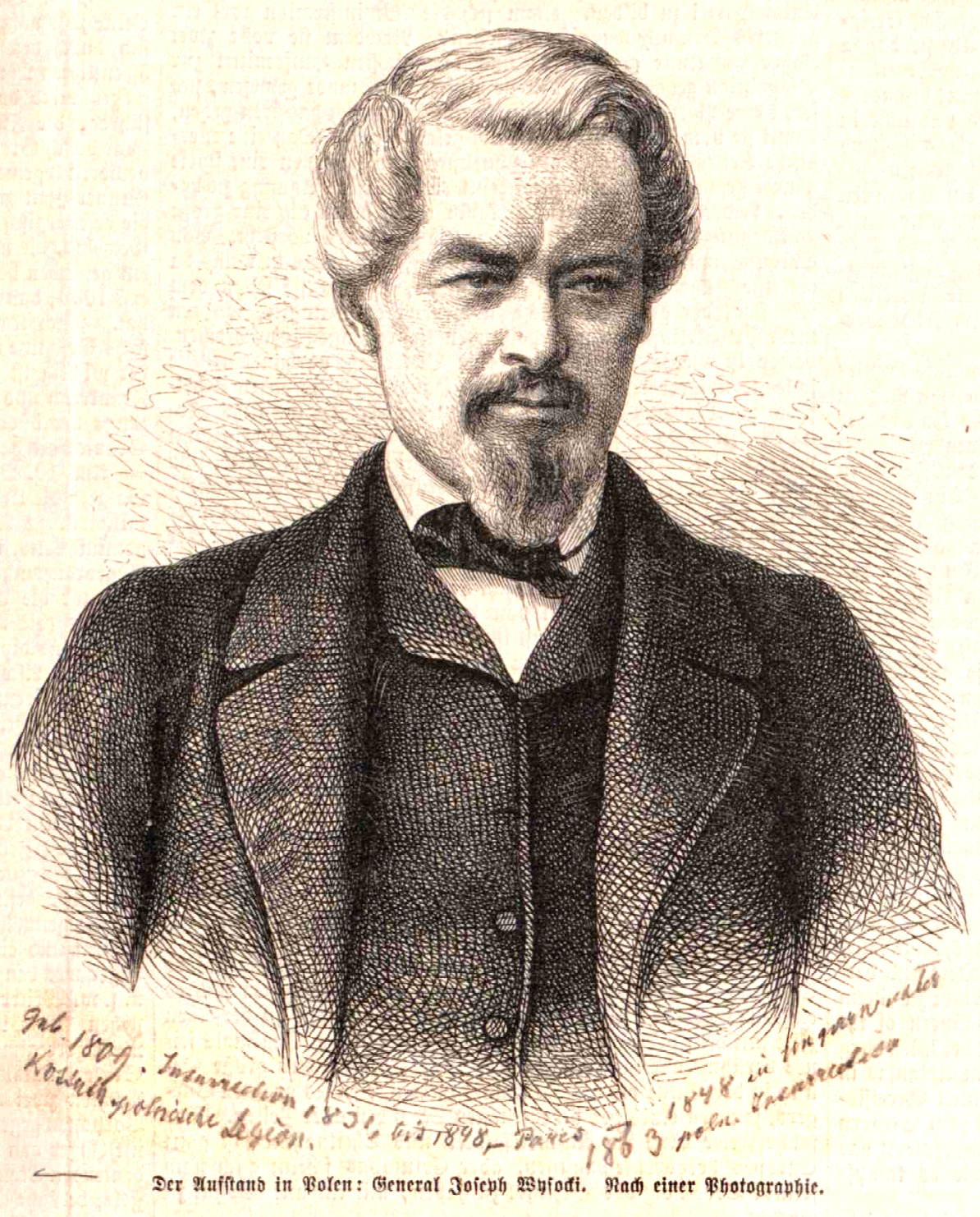 WYSOCKI Józef